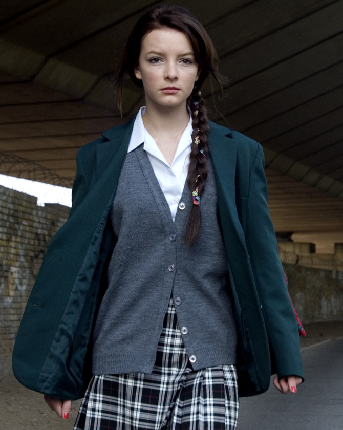 A publicity still from Dustbin Baby showing April, played by Dakota Blue Richards.